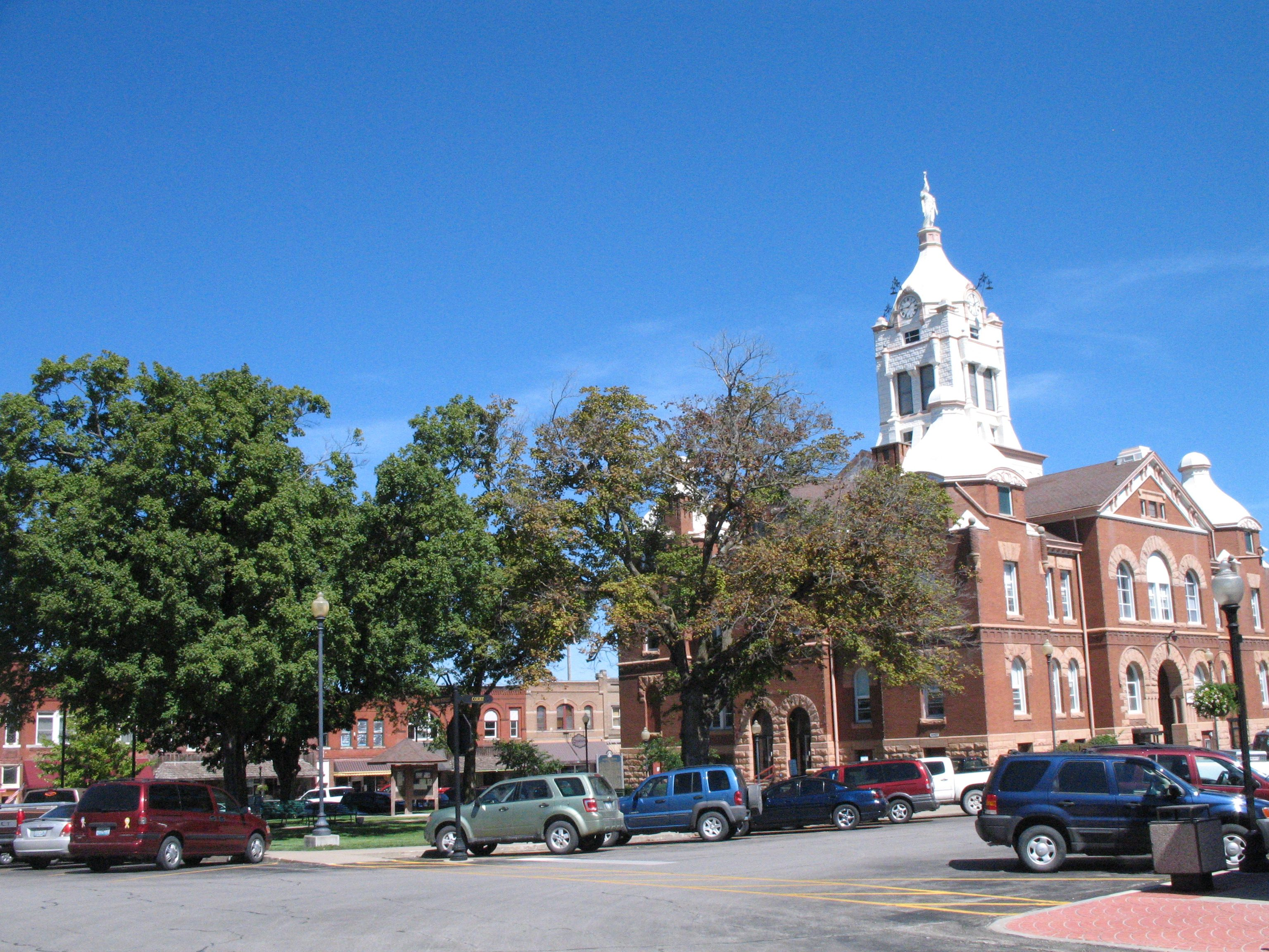 Andrew County courthouse in Savannah.